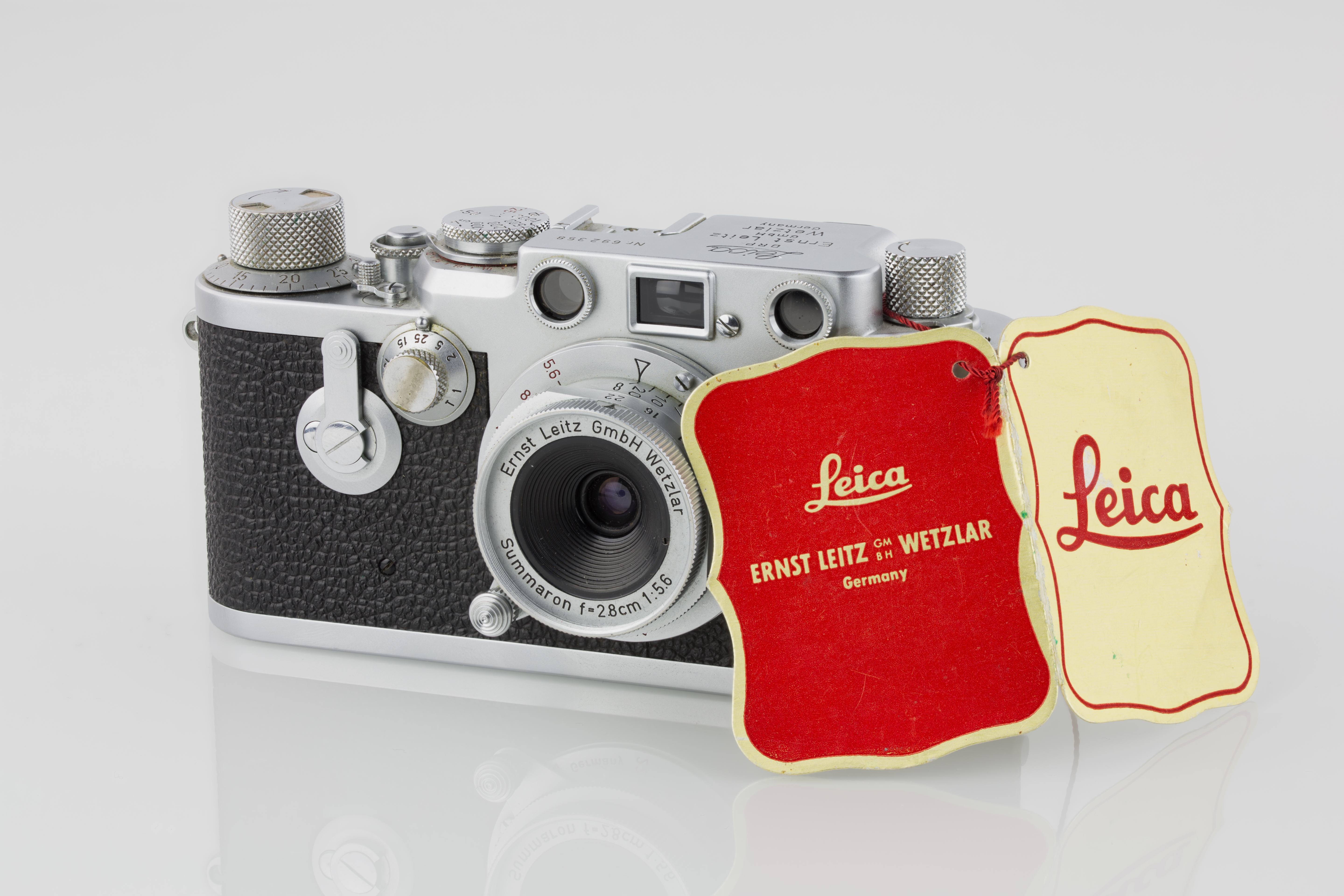 Leica IIIf Red Dial with self-timer Sn. 692358 - M39, 1954 - Mount: M39